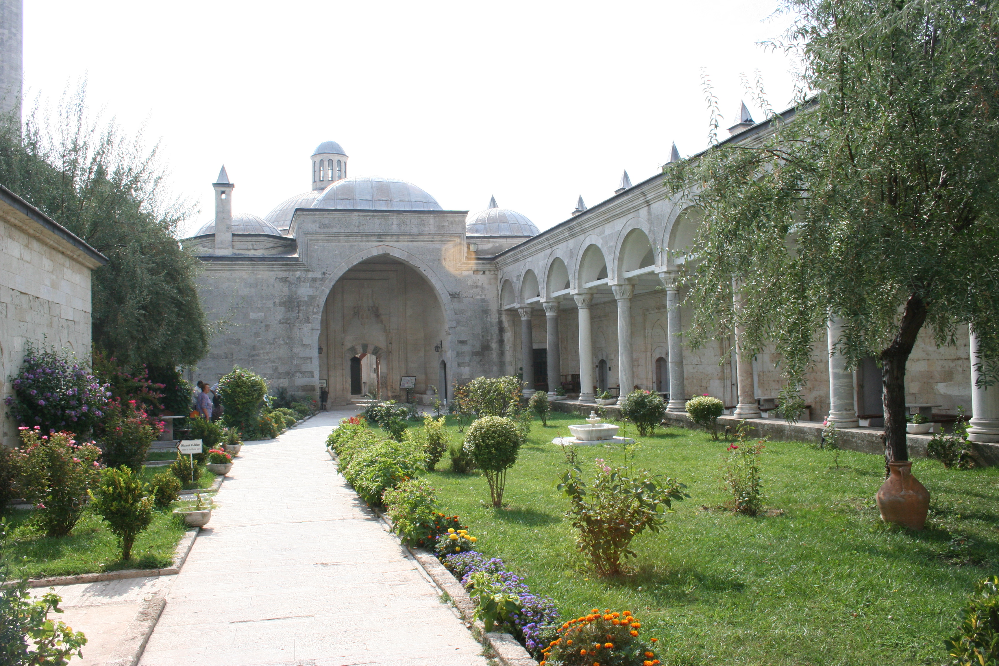 II. Beyazıt Külliyesi (Complex), interior court.